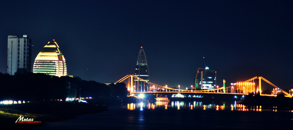 Downtown Khartoum's skyline in 2012 before construction of nile street expansion. (as of 2016 Sudan's skyline looks different but photos are hard to obtain)